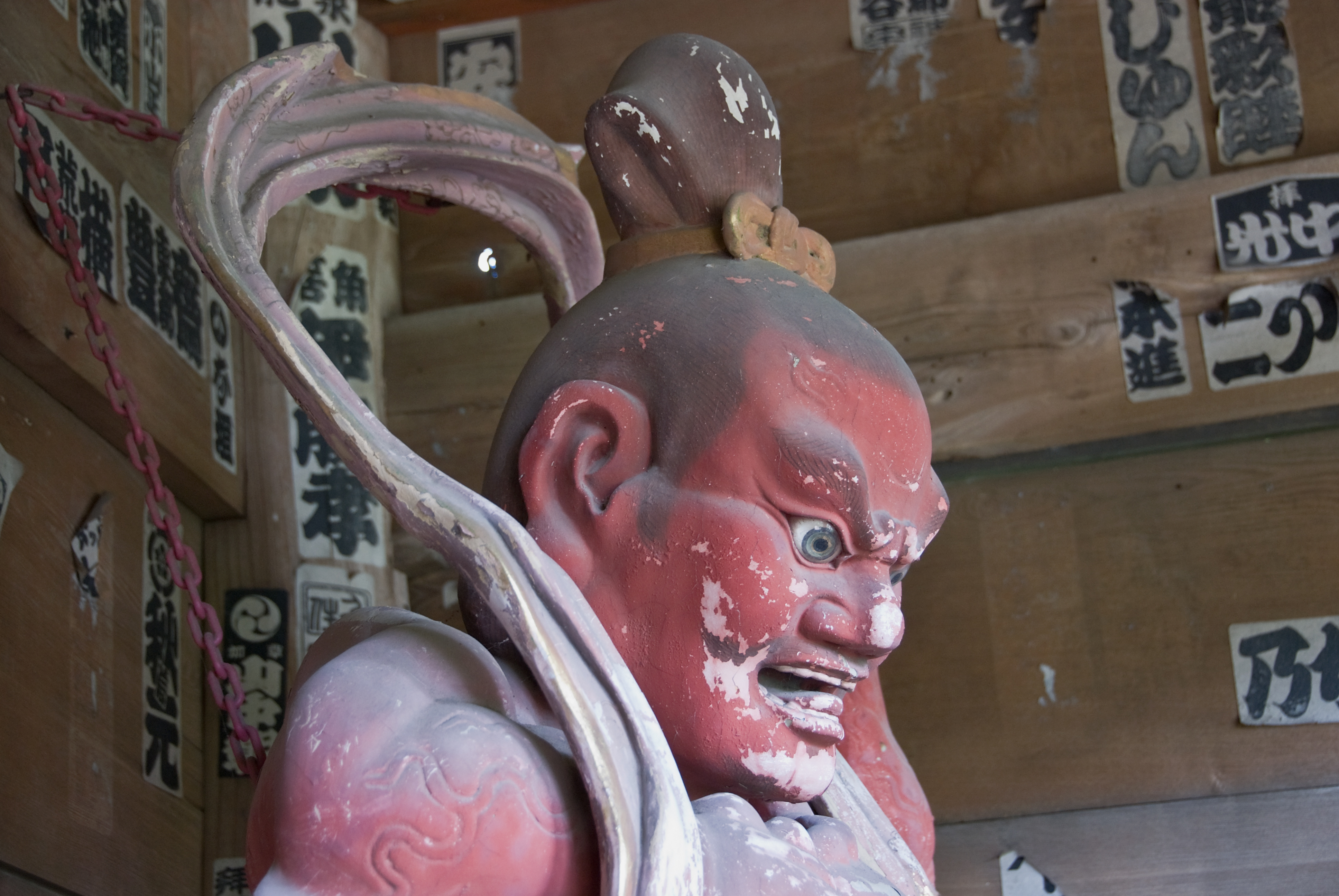 A Nioo at Sugimotodera, the oldest temple in Kamakura